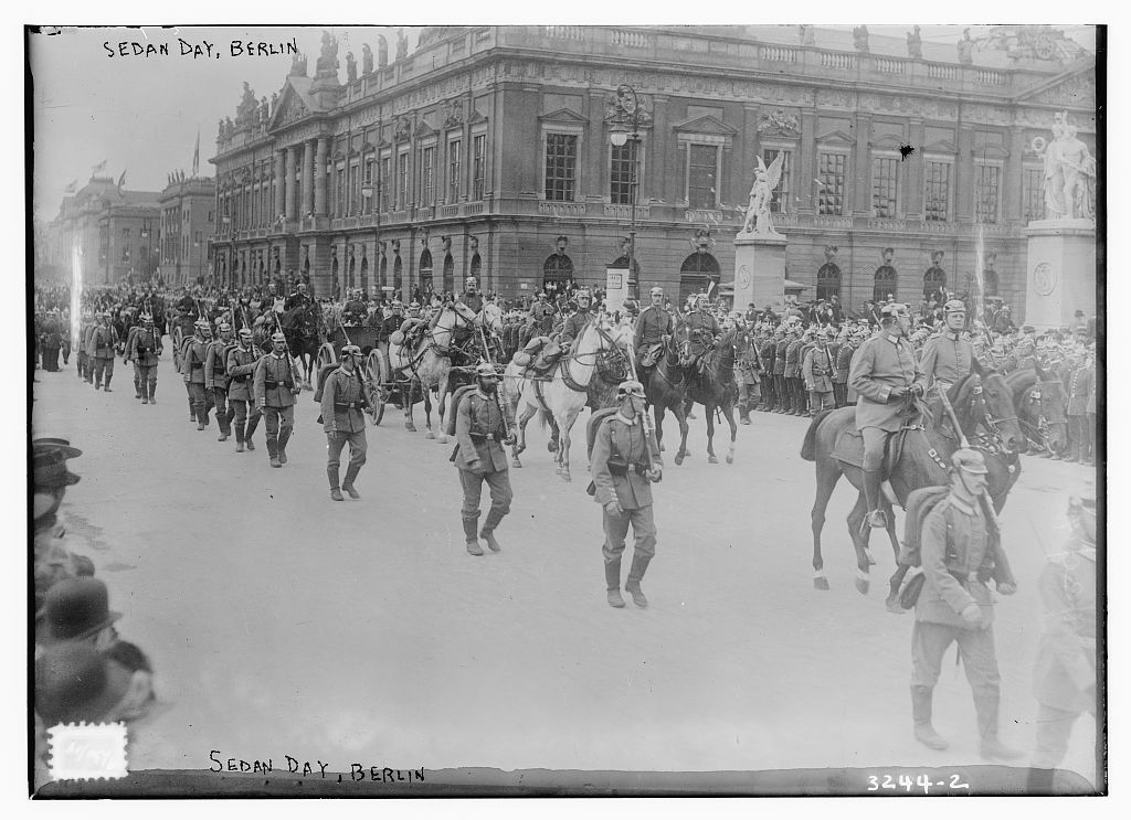 Sedan Day in Berlin in 1914 Bain News Service,, publisher. Sedan Day, Berlin [between ca. 1910 and ca. 1915] 1 negative : glass ; 5 x 7 in. or smaller. Notes: Title from unverified data provided by the Bain News Service on the negatives or caption cards. Forms part of: George Grantham Bain Collection (Library of Congress). Subjects: Berlin Format: Glass negatives. Repository: Library of Congress, Prints and Photographs Division, Washington, D.C. 20540 USA, General information about the Bain Collection is available at Persistent URL: Call Number: LC-B2- 3244-2